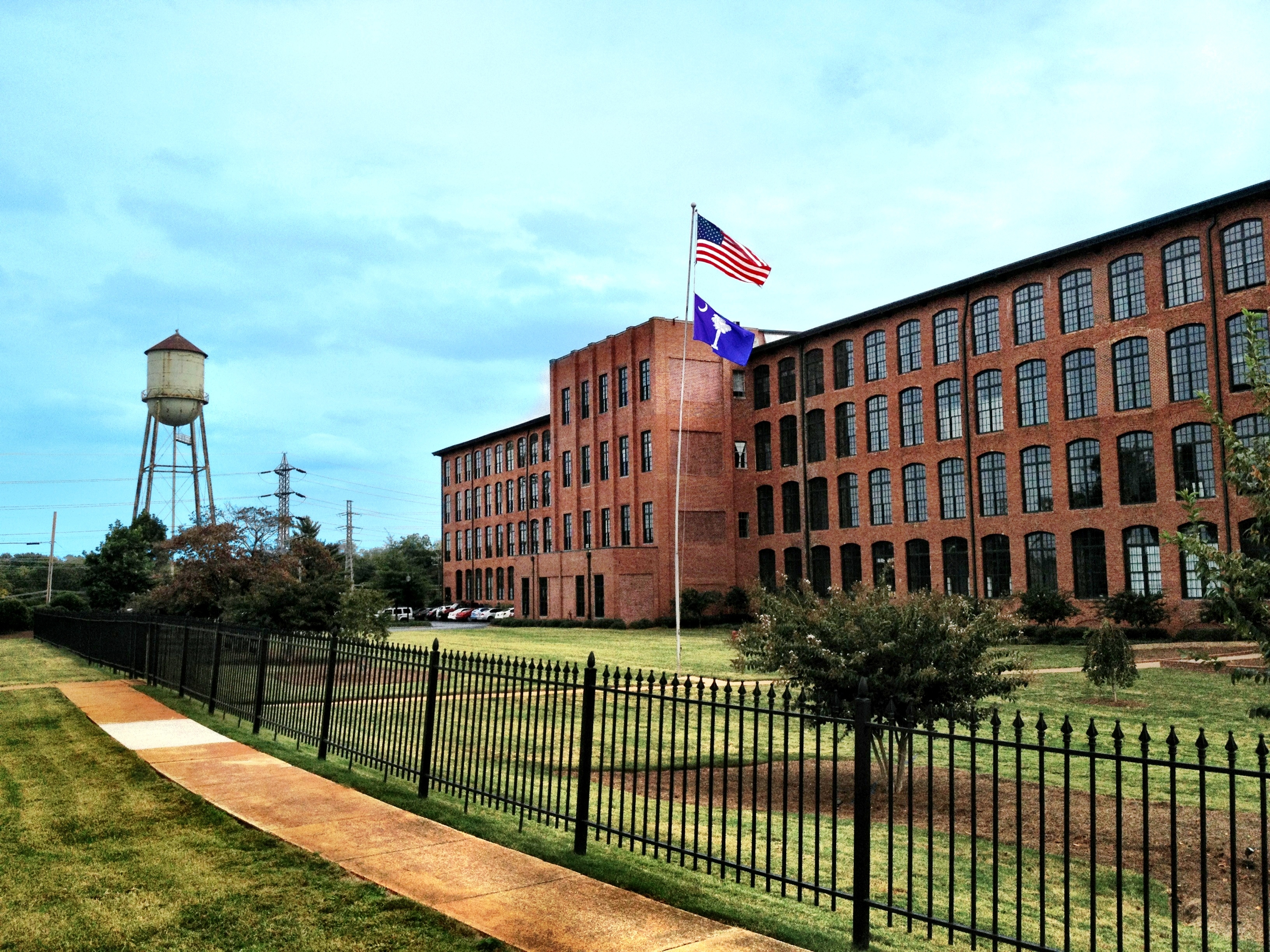 Monaghan Mill in Greenville, SC as it stands on September 30th, 2012. The site has been converted into living spaces a few blocks from downtown Greenville.